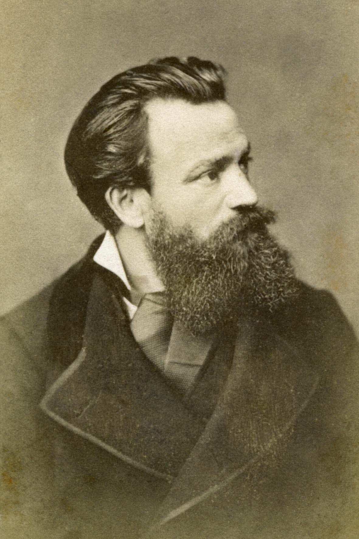 Alexis Louis Trinquet